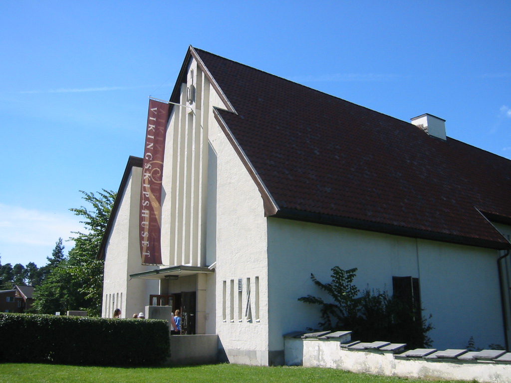 Vikingskipshuset, Bygdøy, Oslo